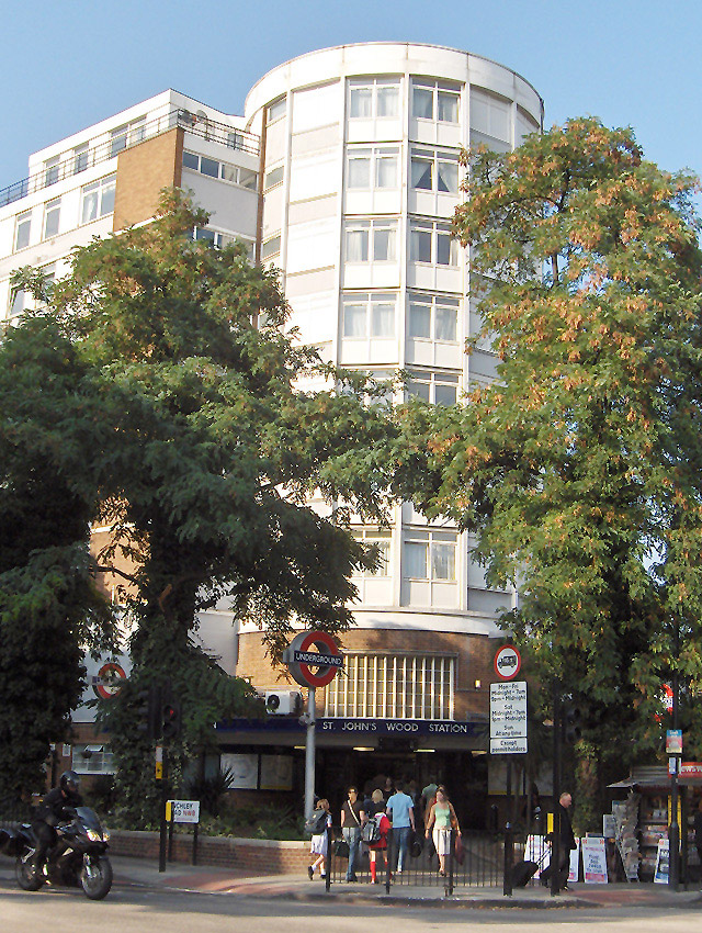 St Johns Wood tube station, London